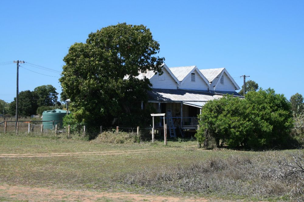 Station Master's Residence, Einasleigh (former), from S (2008)